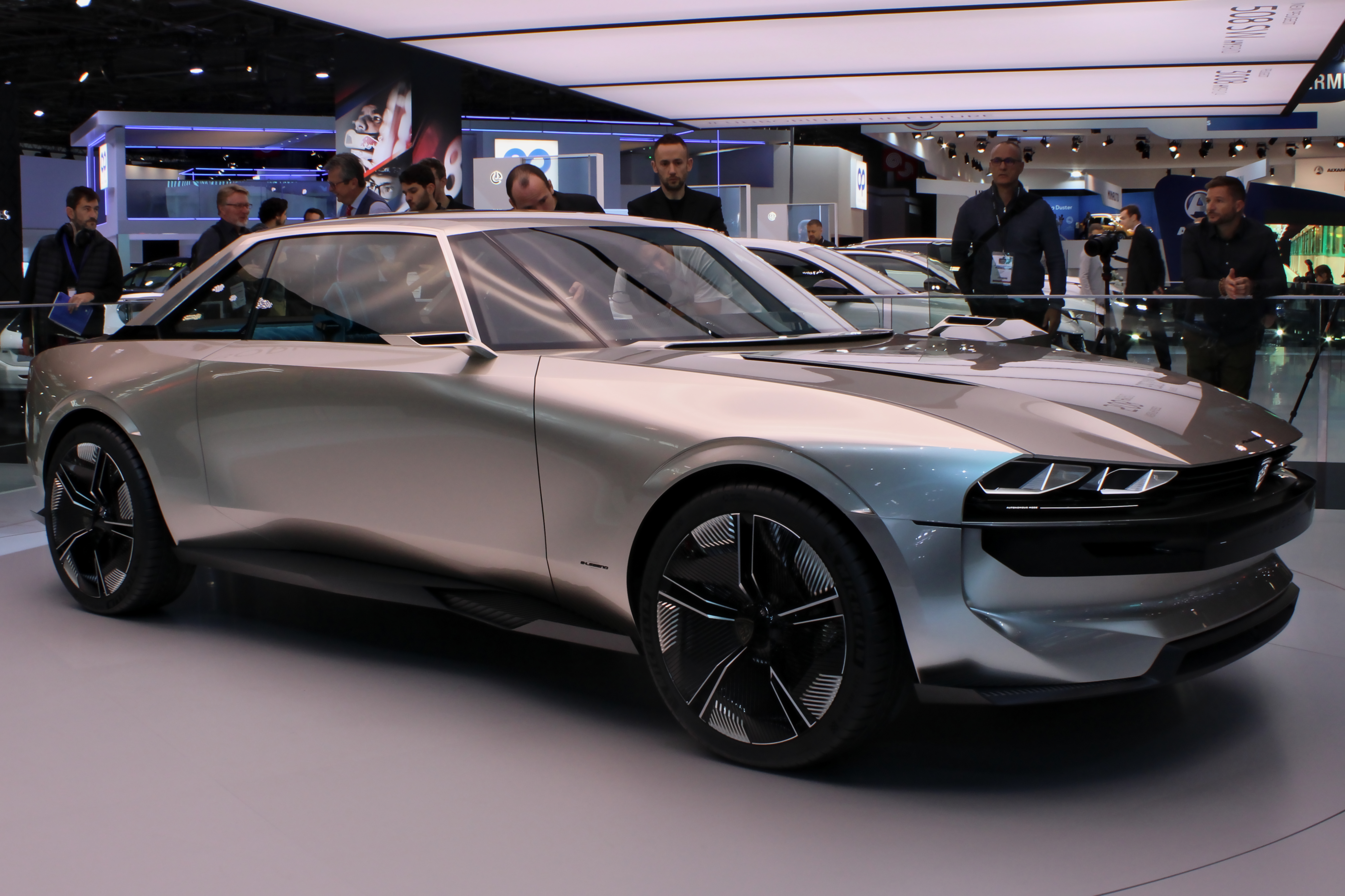 Peugeot E-Legend at Paris Motor Show 2018